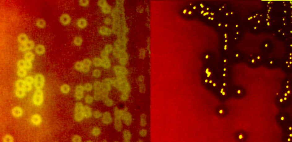 Alpha and Beta haemolytic streptococci grown on blood agar